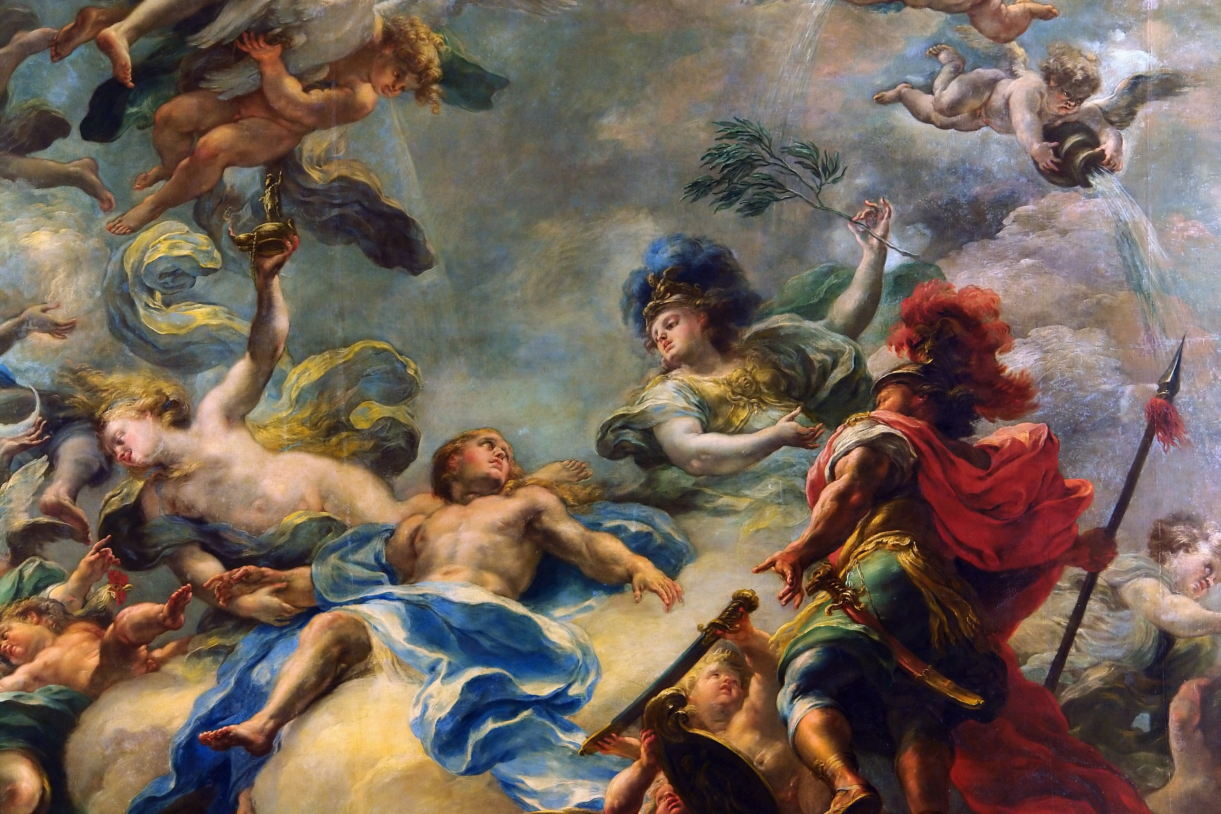 Detail of ceiling Painting by Giacomo de Po in the Obere Belvedere (Vienna)